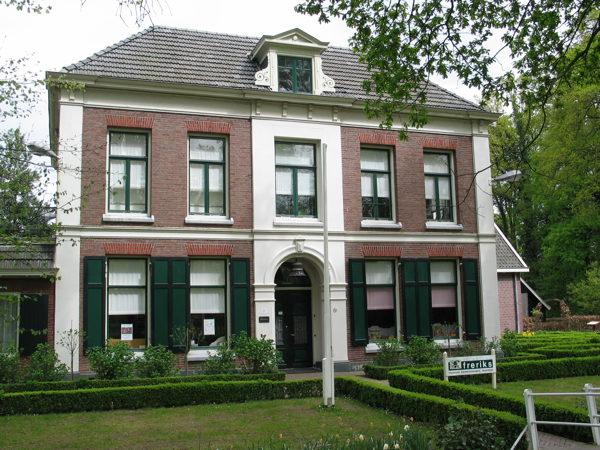 The front of the Freriks Museum, Winterswijk, NLD